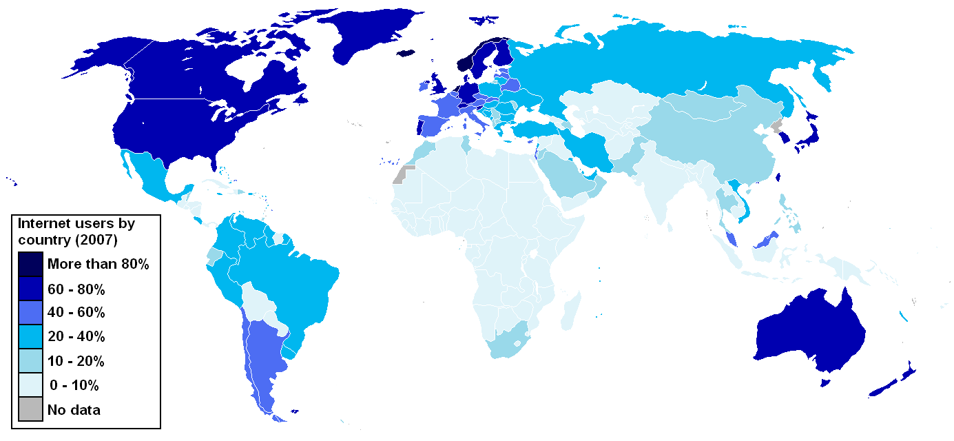 Internet users by country (%) / English Version. Based on with data from the 2007 CIA World Factbook.